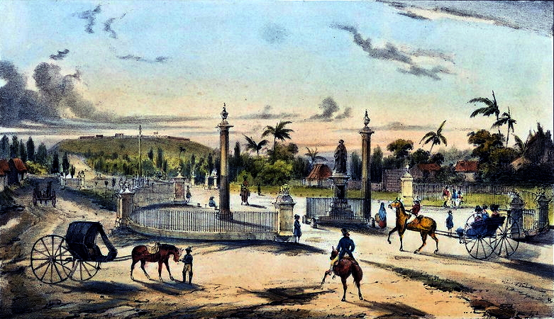 View of the entrance to the Tacon promenade (Havana)